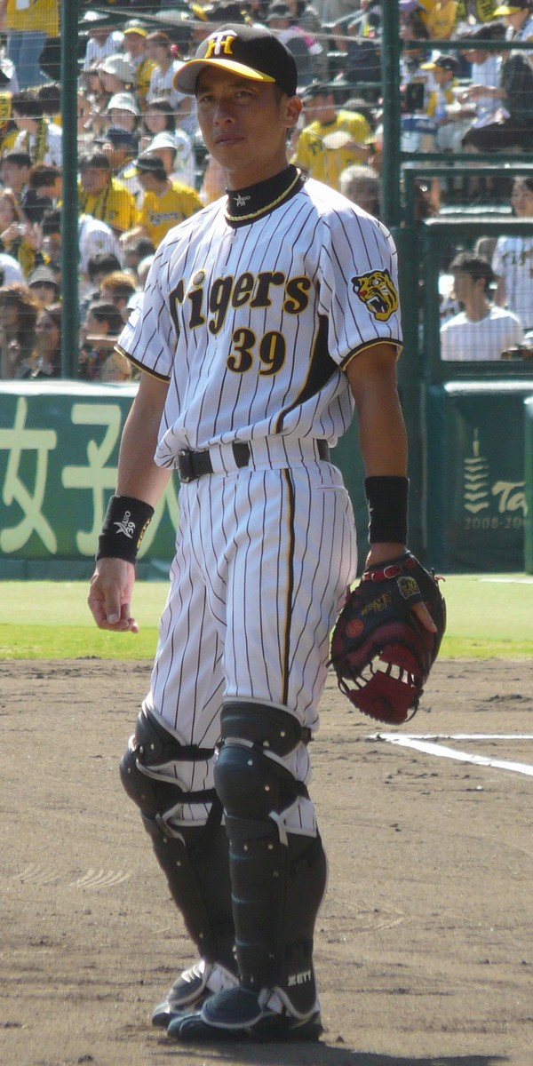 Akihiro Yano, catcher of the Hanshin Tigers, at Hanshin Koshien Stadium.